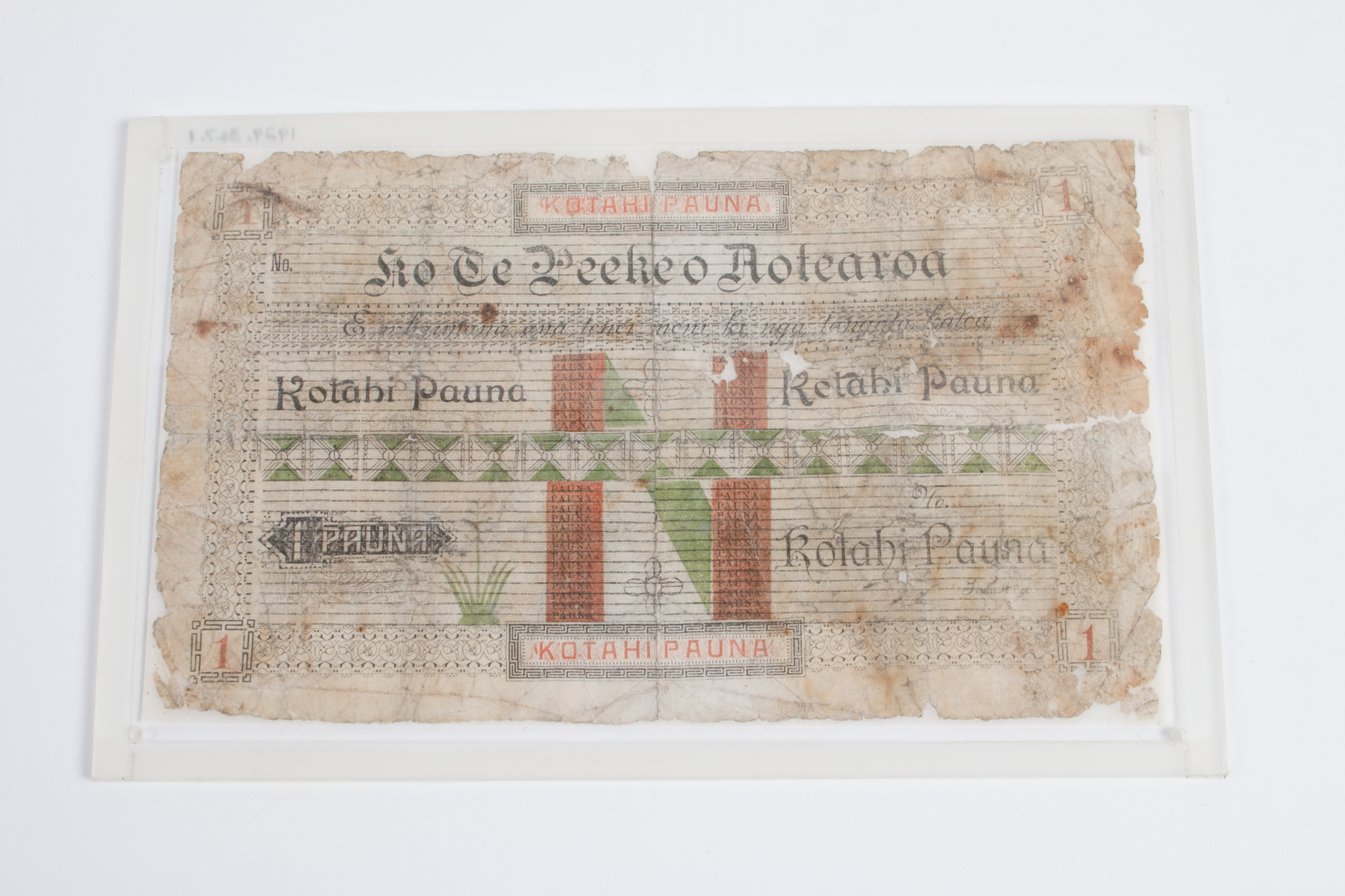 Banknote- Te Peeke of Aotearoa Ko Te Peeke o Aotearoa - Kotahi Pauna - E whaimana ana tenei moni ki nga tangata katoa - printed signature "Tawhia" printed on paper; multi-colour; no serial number; marked verso- red circle in each corner and one at centre with numeral '1' accession register entry- 'Maori £1 note - issued during Maori War'